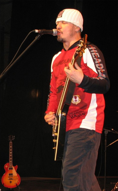 "Gorky Park" rock-group, 2006